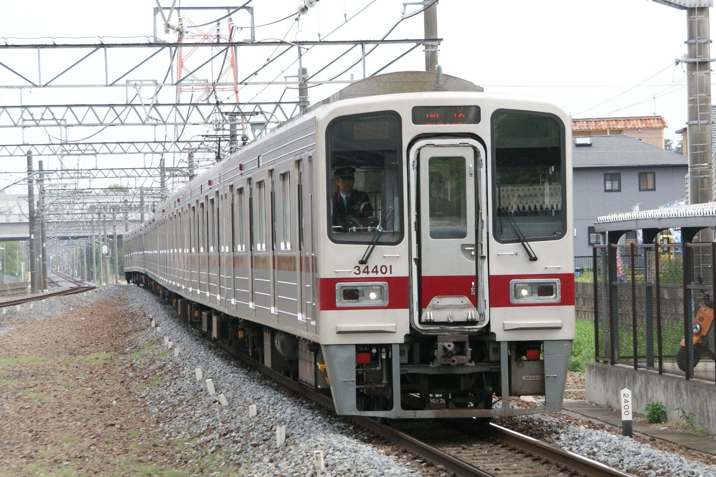 Tobu 30000 series EMU sets 31401 and 31601 approaching Wakaba Station on the Tobu Tojo Line on a driver training run from Kawagoeshi to Shinrinkoen